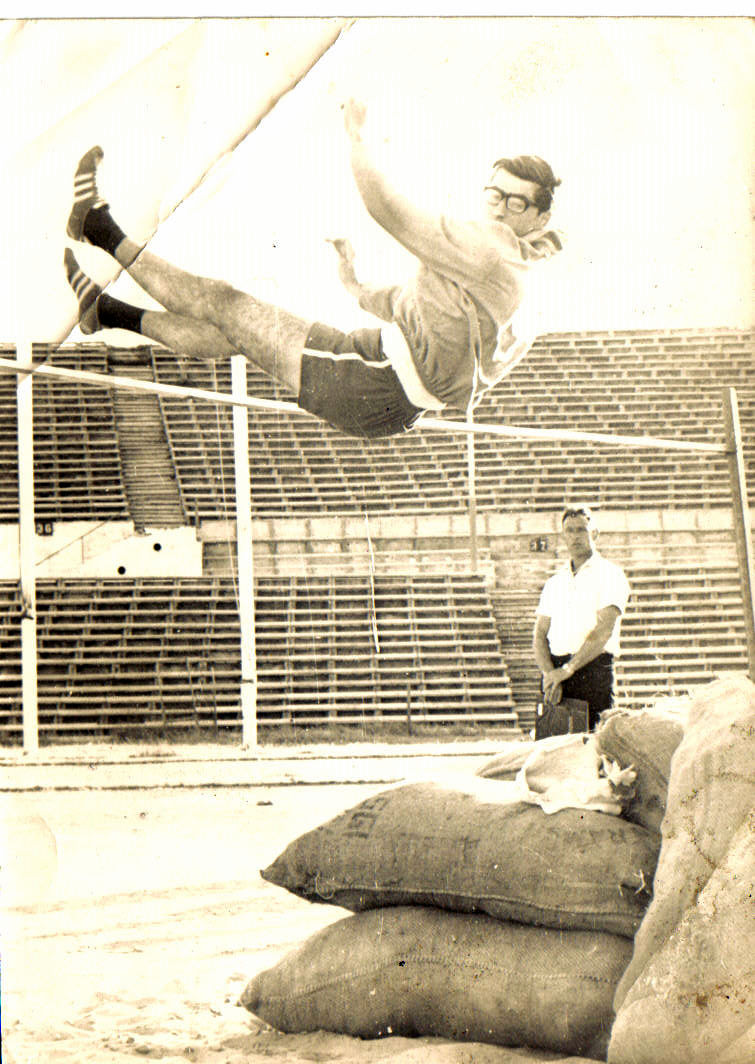 Yosef pickel high jump 1